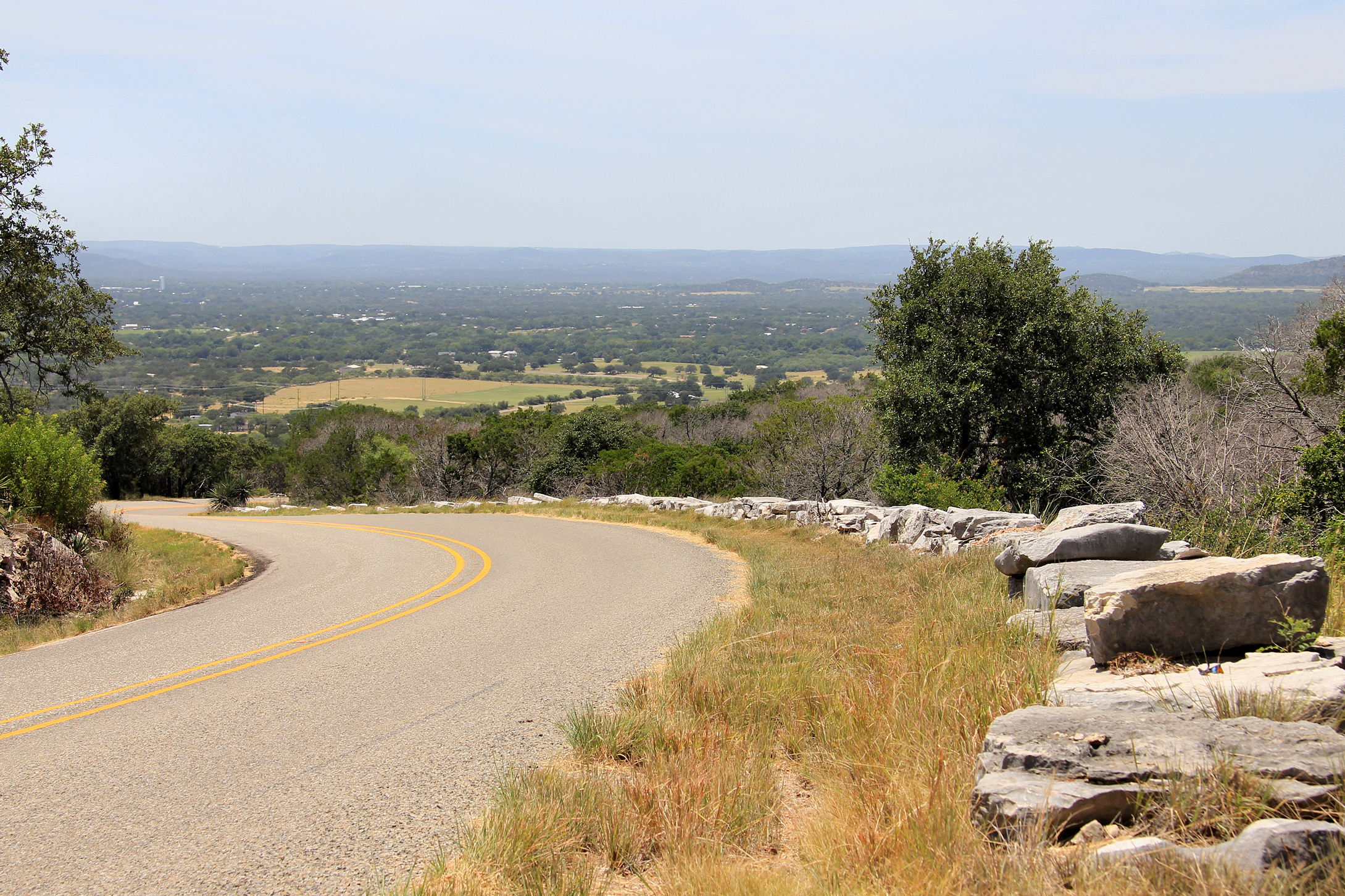 Guard walls along Park Road 4 as it descends into Hoover's Valley toward Inks Lake State Park. The Civilian Conservation Corps built the road between 1934 and 1942.